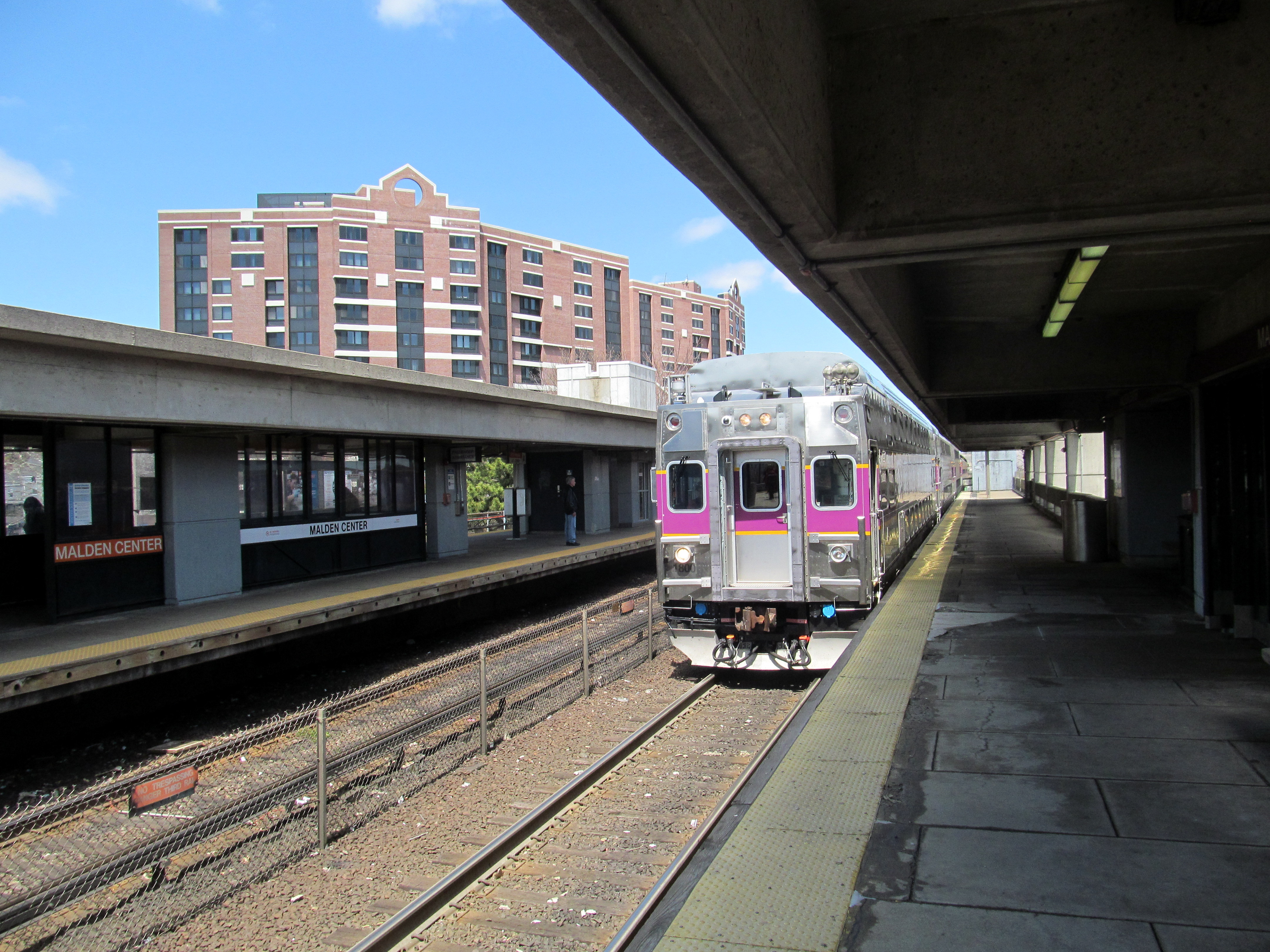 Brand-new Rotem control car #1800 arrives at Malden Center on its first revenue round trip